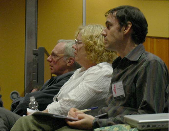 (L to R) Robert Christgau, Ann Powers, Charles Kronengold. 2007 Pop Conference, Experience Music Project, Seattle, Washington.